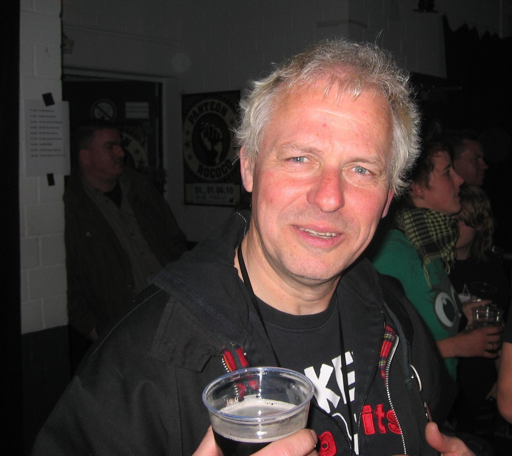 Claus Fabian 2010